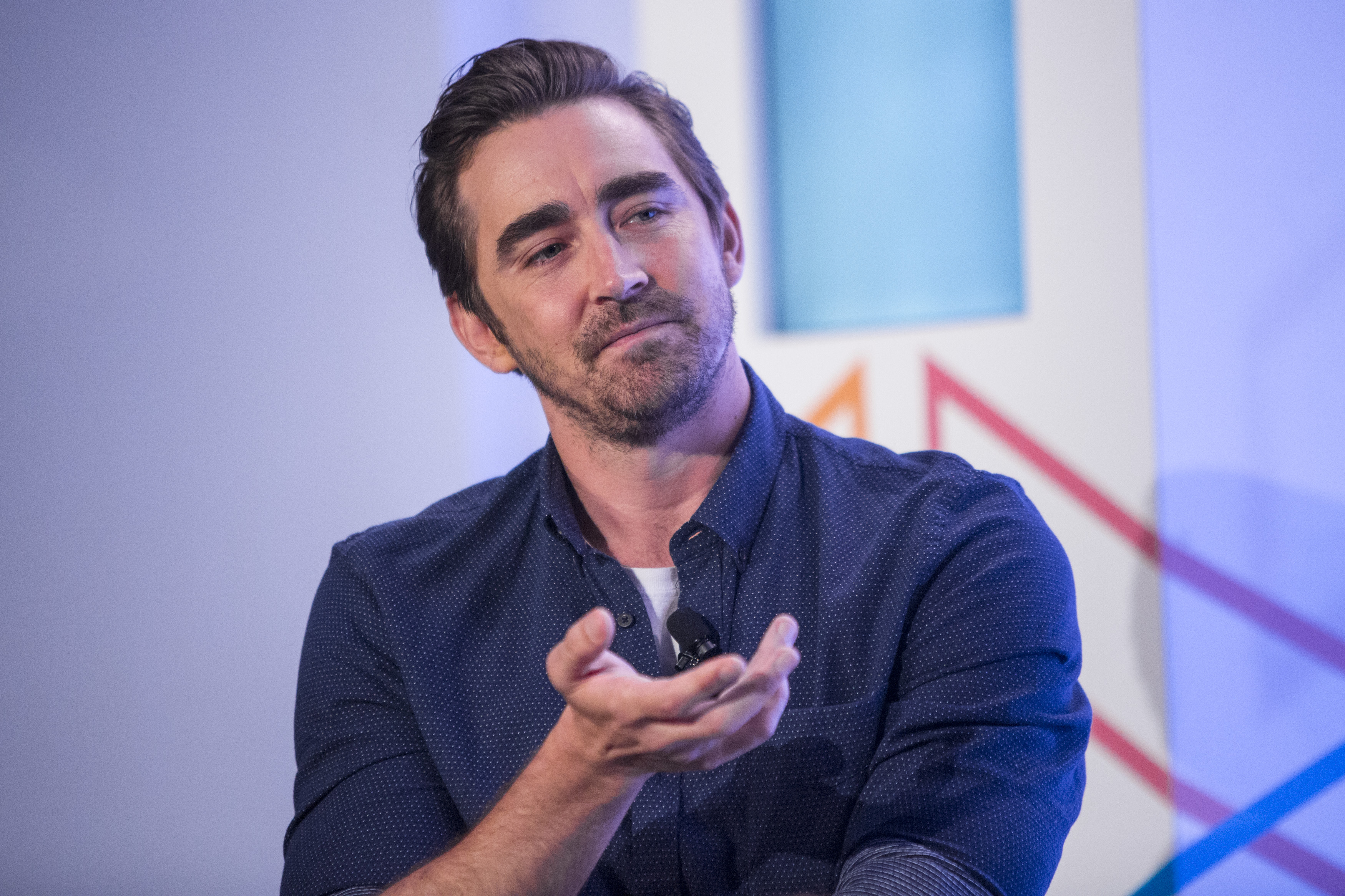 Cyndi Stivers, SVP at Tina Brown Live Media presents AMC's Halt and Catch Fire Star Lee Pace: A Fireside Chat at Internet Week HQ on Day 1 of Internet Week 2015 in New York May 18, 2015. Insider Images/Andrew Kelly (UNITED STATES)